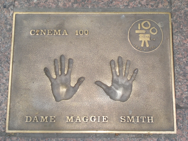 Maggie Smith handprints in Leicester Square WC2 Dame Margaret Natalie Smith (b.1934) - Actor